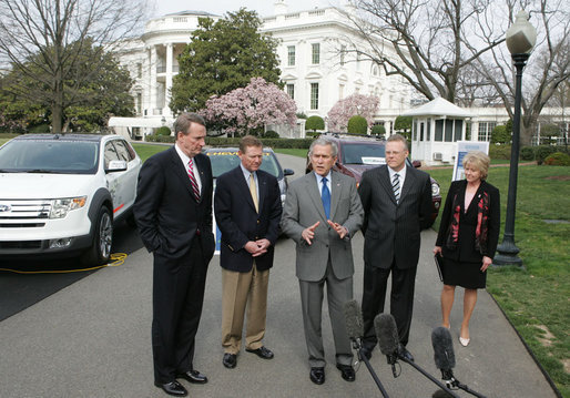 President George W. Bush talks to the media after a demonstration Monday, March 26, 2007, of alternative fuel vehicles on the South Lawn drive of the White House. Standing with him from left, are: Rick Wagoner, Chairman and CEO, General Motors Corporation; Alan Mulally, President and CEO, Ford Motor Company; Tom LaSorda, President and CEO, DaimlerChrysler Corporation, and Secretary of Transportation Mary Peters. White House photo by Joyce Boghosian